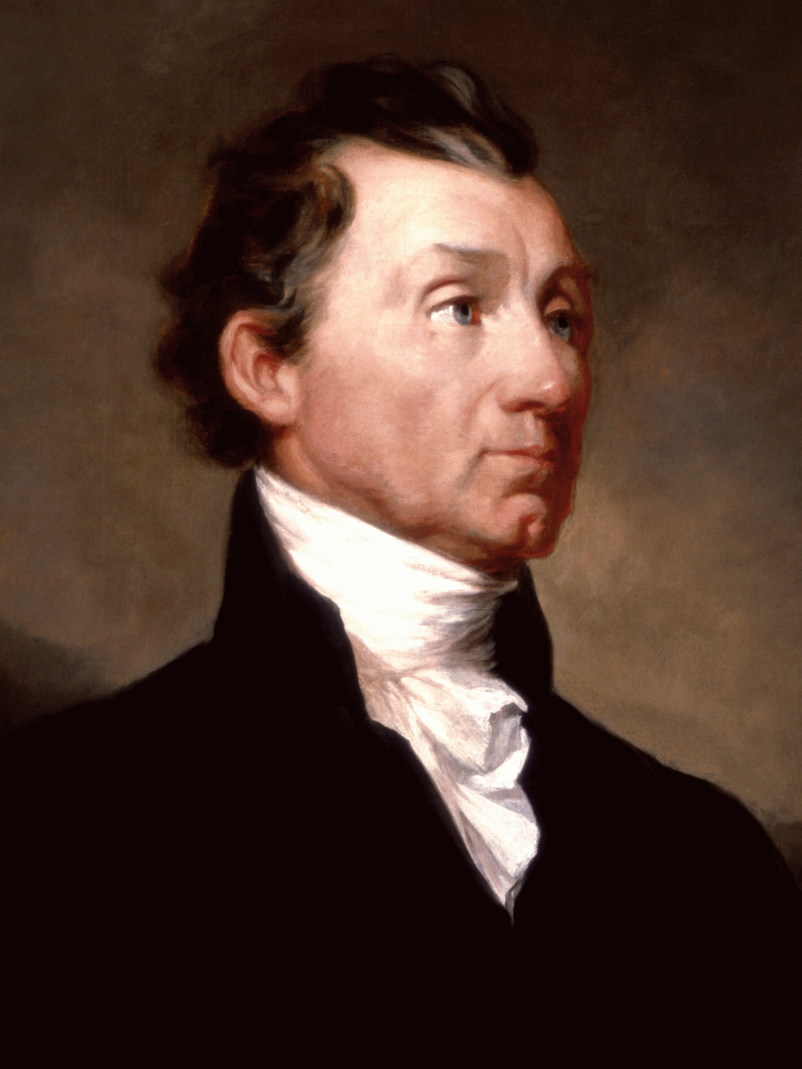 Portrait of James Monroe, The White House Historical Association